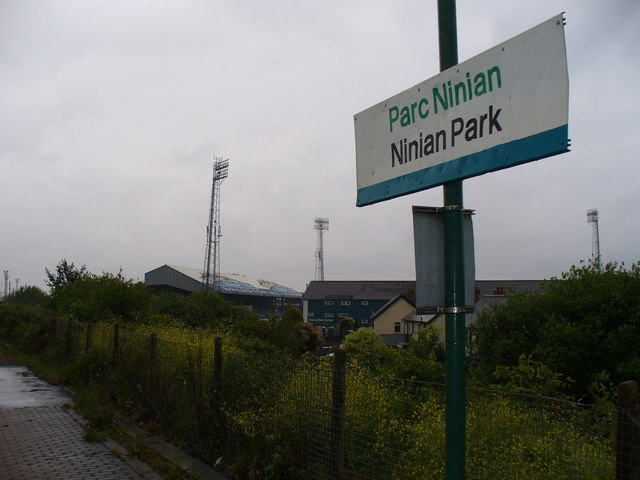 Ninian Park railway station, Cardiff, Wales